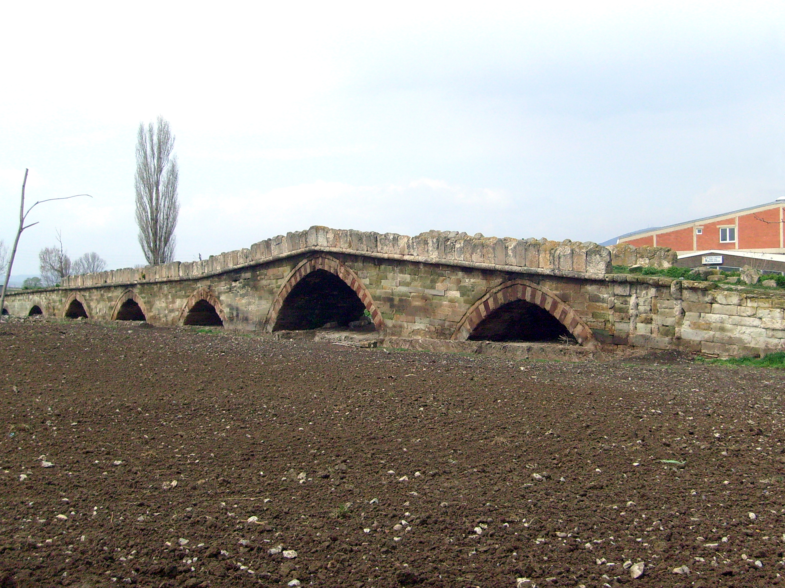 Vojinovića Bridge: Vucitrn's symbolic historical buildings from the Ottoman era. (Vucitrn / Kosovo)